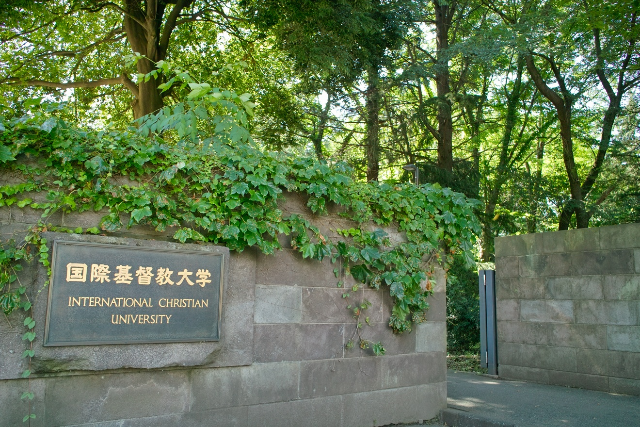 International Christian University Main Gate